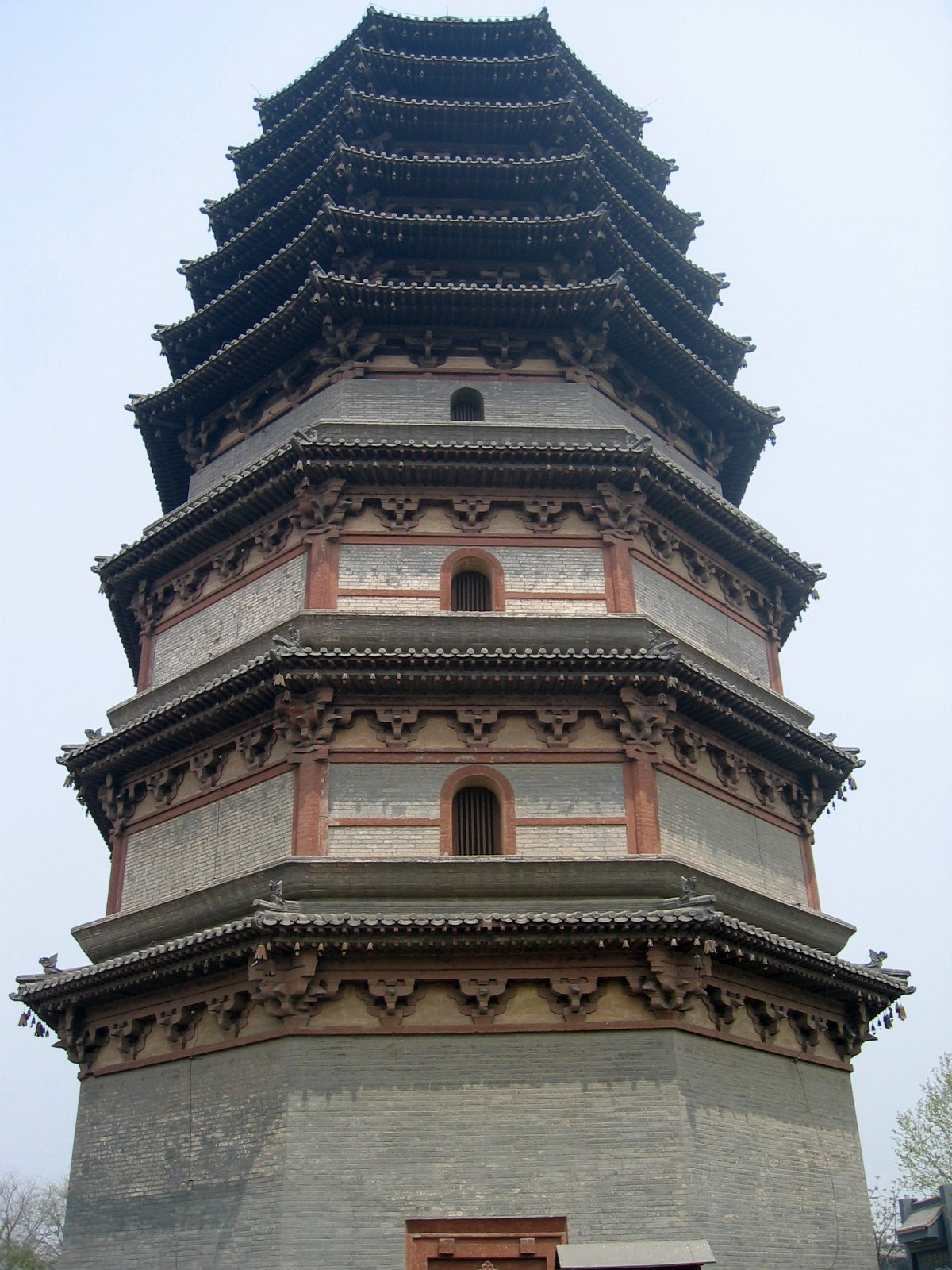 Photograph of the Lingxiao Pagoda, Zhengding, Hebei Province, China. The pagoda was built in 1045 AD during the Song Dynasty, and stands at a height of 42 m (137 ft). Photograph taken on April 18, 2005 by Rolf Müller.